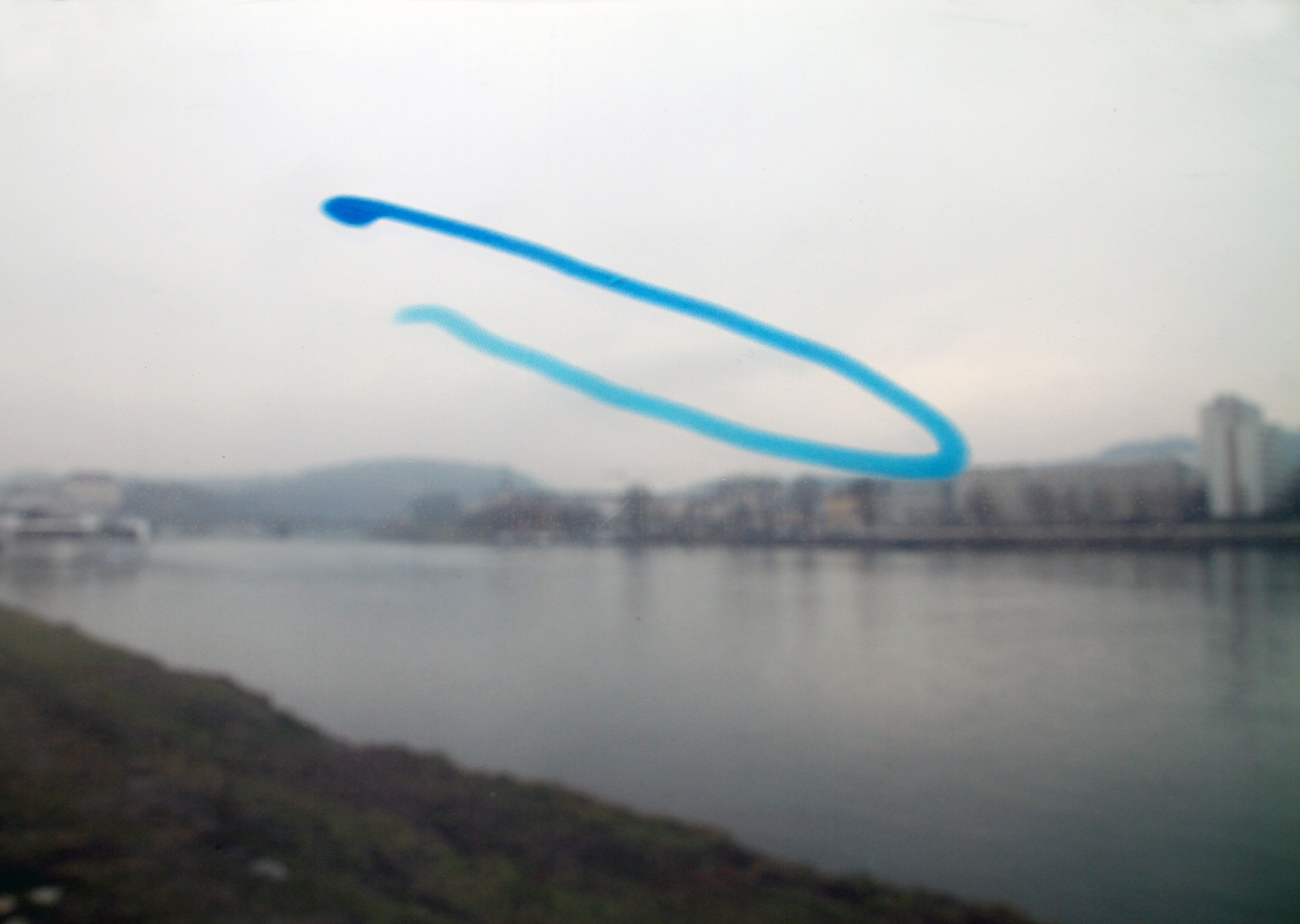 The official sujet for the first edition of LINZ FMR, a festival for art in digital contexts and public spaces. It shows a view over the Danube river in Linz, and to the left side a part of the exhibition area alongside the river. The blue graphic symbolizes a finger swipe on a touch screen when entering the keys F, M and R.